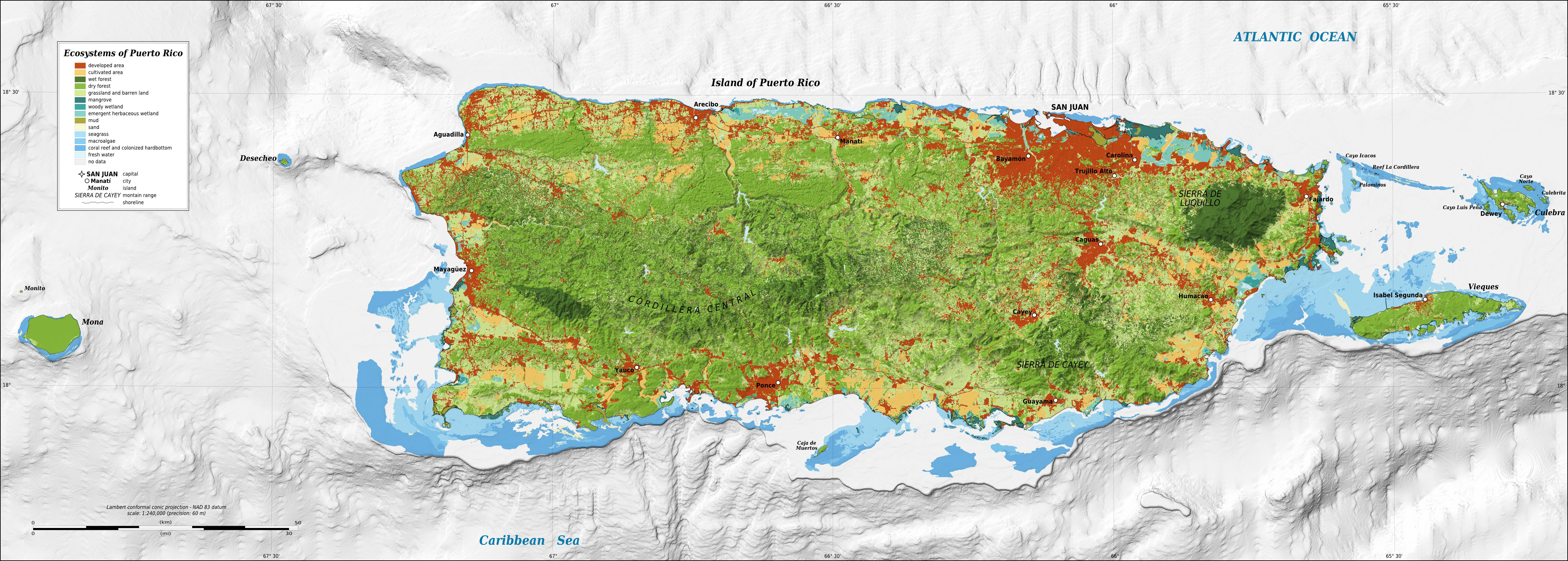 Map in English of the ecosystems of Puerto Rico.